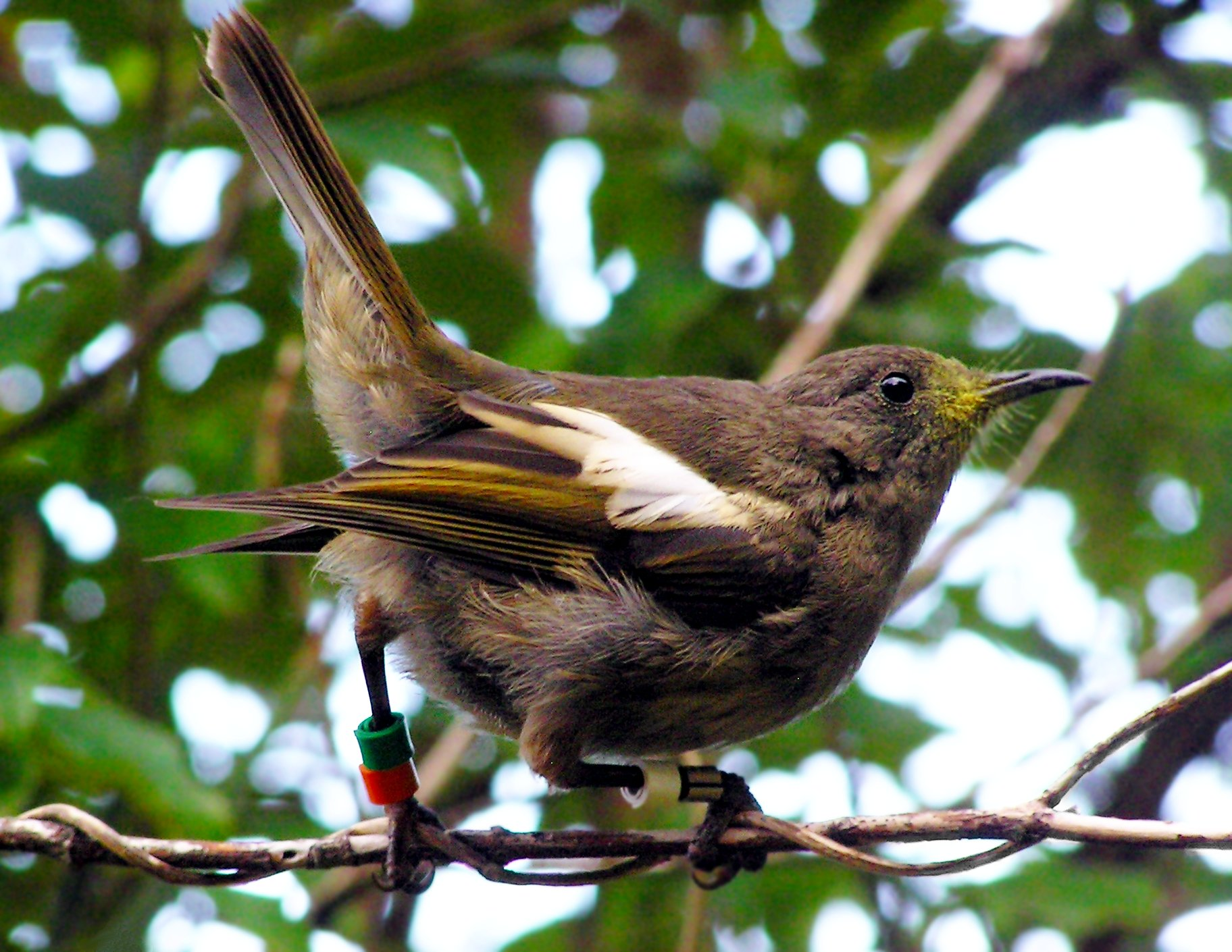 New Zealand female Stitchbird on Wrights Hill, Wellington, adjacent to Karori Wildlife Sanctuary. Showing typical 'tail cocked' stance. (Image needs improvement)